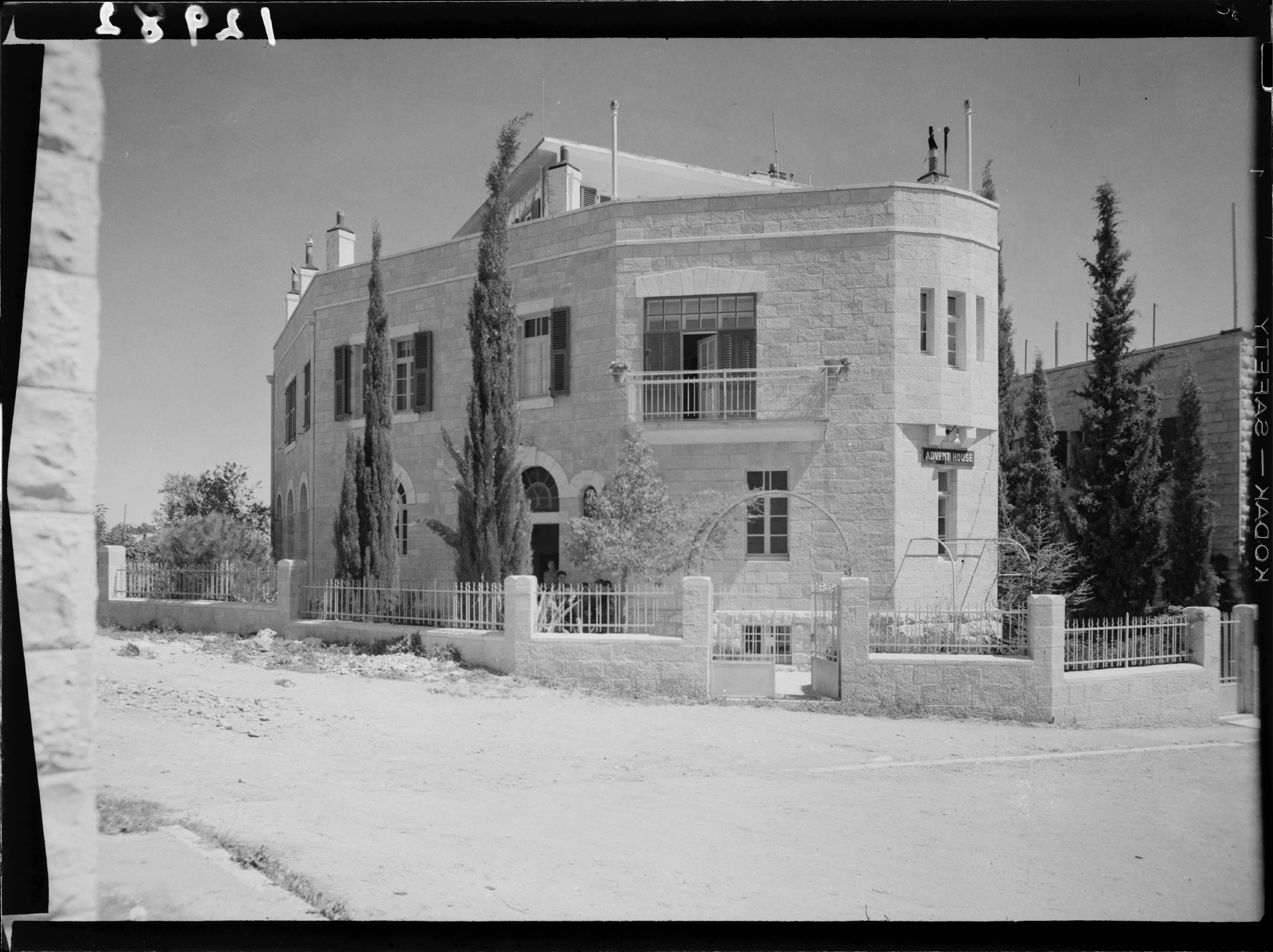 Title: Advent house in Jerusalem Abstract/medium: G. Eric and Edith Matson Photograph Collection Physical description: 1 negative